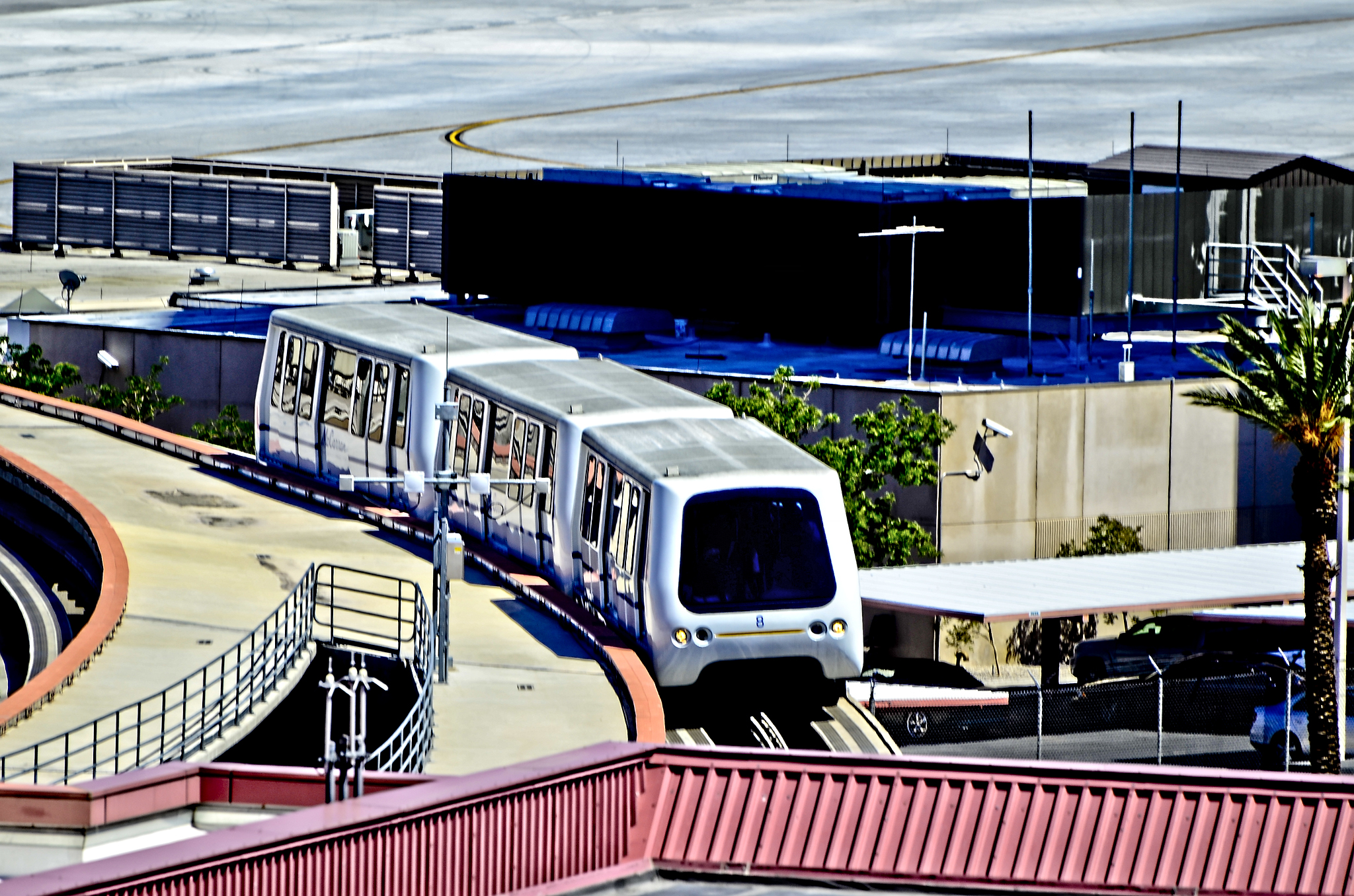 TDelCoro June 55, 2011